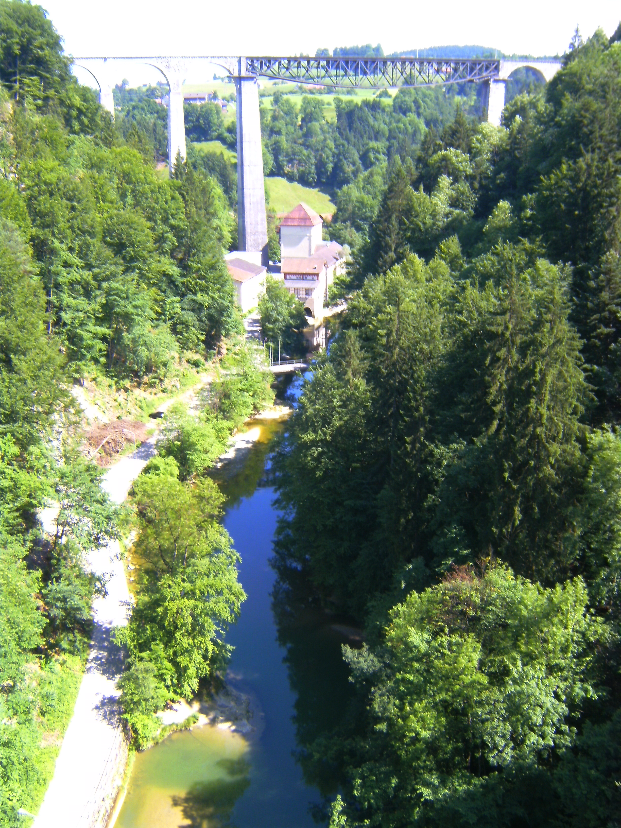 Sitter valley near St. Gallen